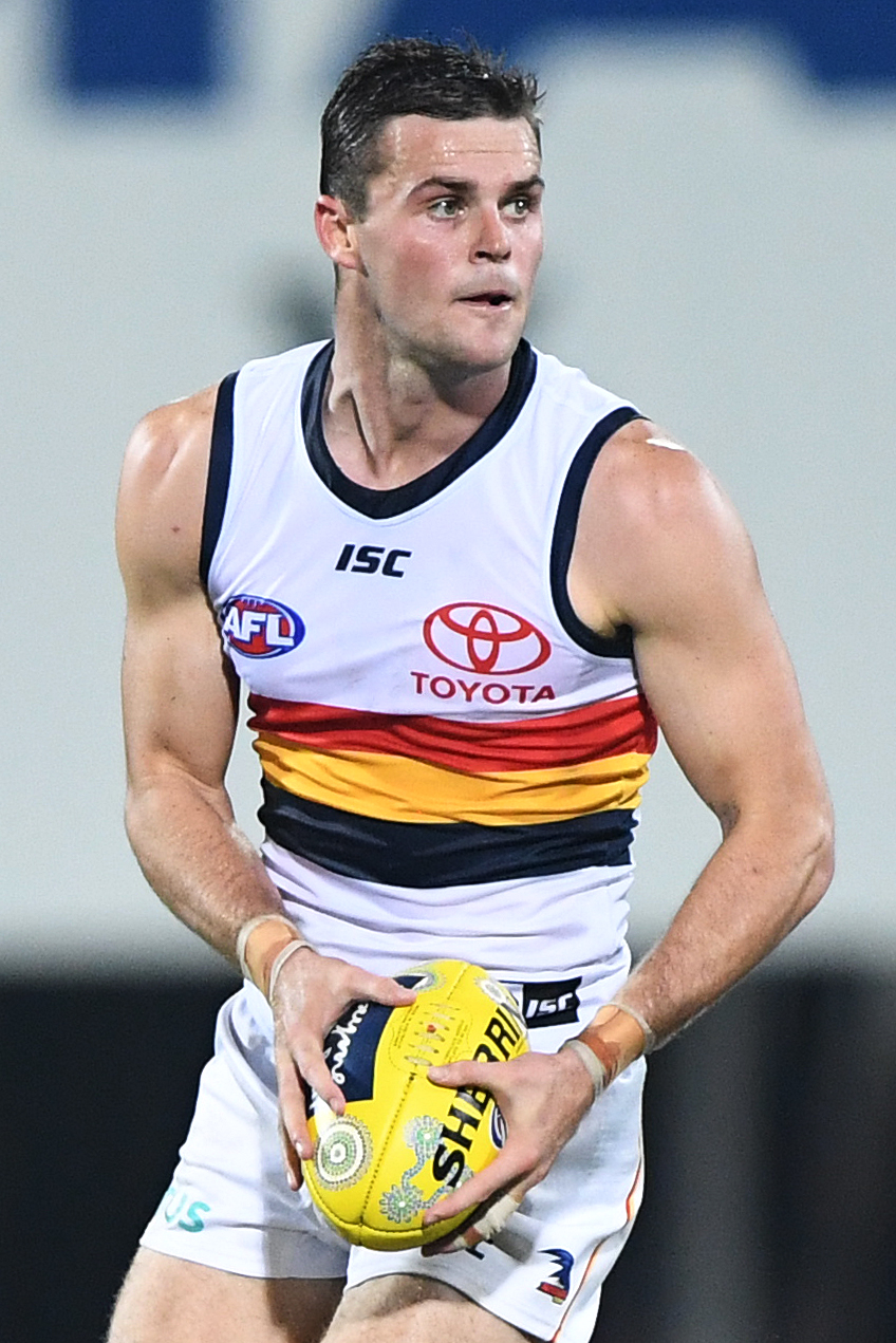 Brad Crouch of Adelaide during the 2019 AFL round 11 match between Melbourne and Adelaide at TIO Stadium on Saturday, 1 June 2019 in Darwin, Northern Territory.